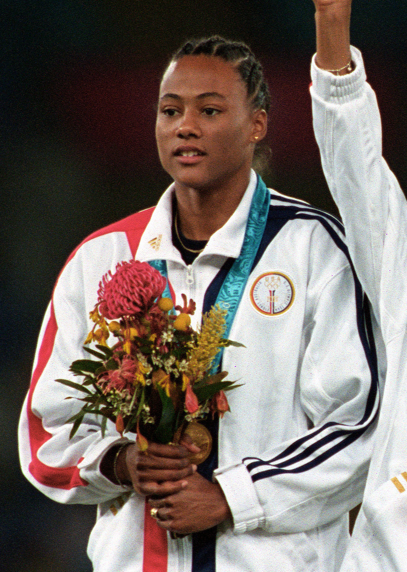 Marion Jones - September 30th, 2000 at the 2000 Sydney Olympic Games.